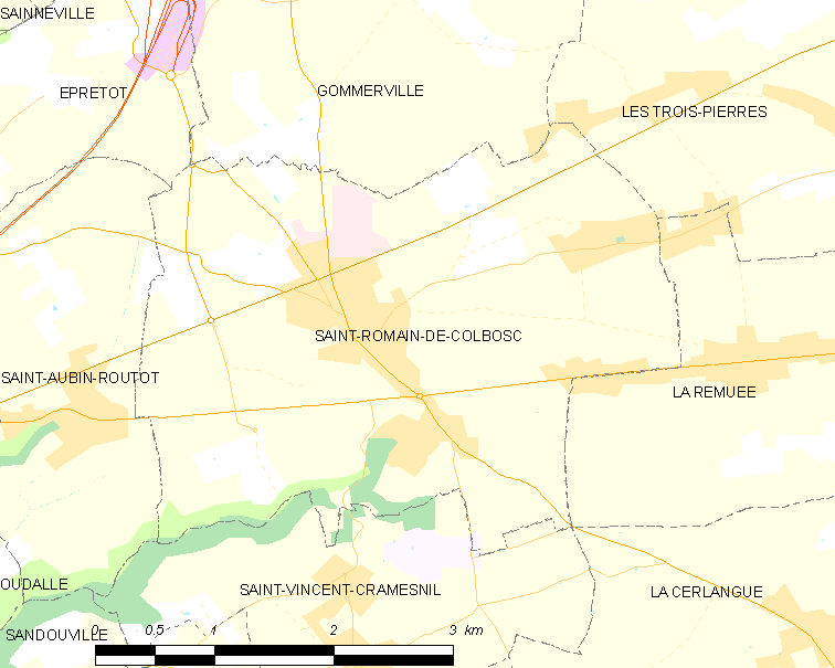 Map of French municipality Saint-Romain-de-Colbosc